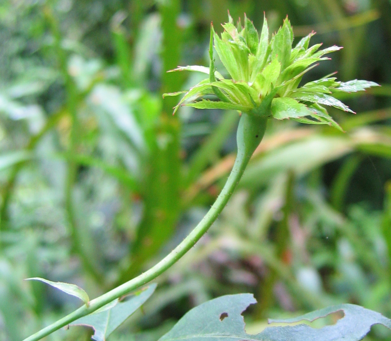 Rose Flower